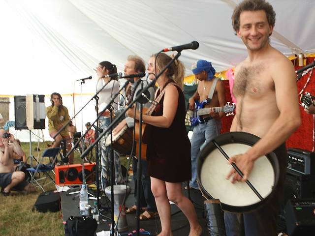 Seize the Day performing at the national Permaculture Convergence, September 2004.